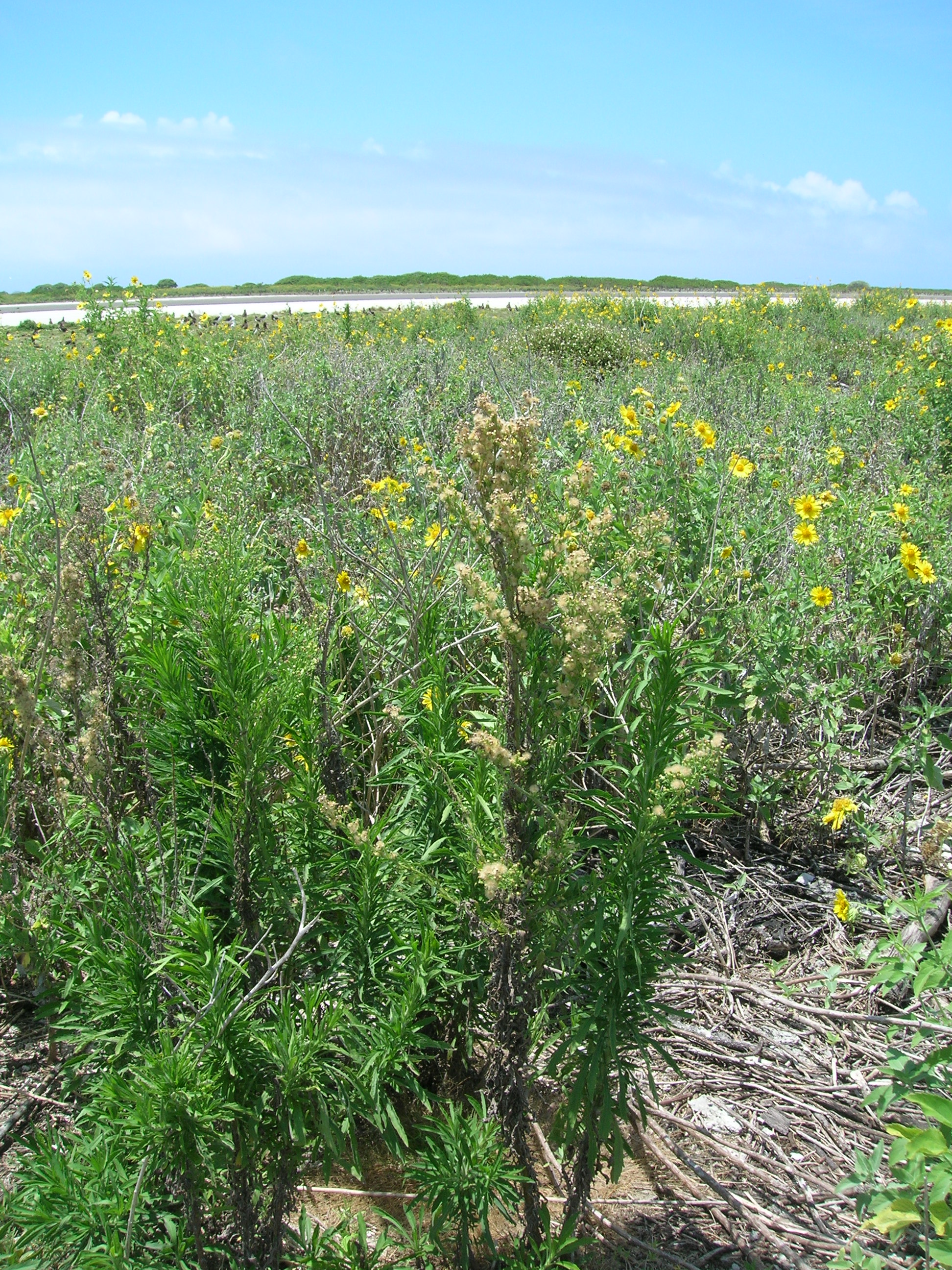 Conyza bonariensis (habit). Location: Midway Atoll, Antenna fields Sand Island